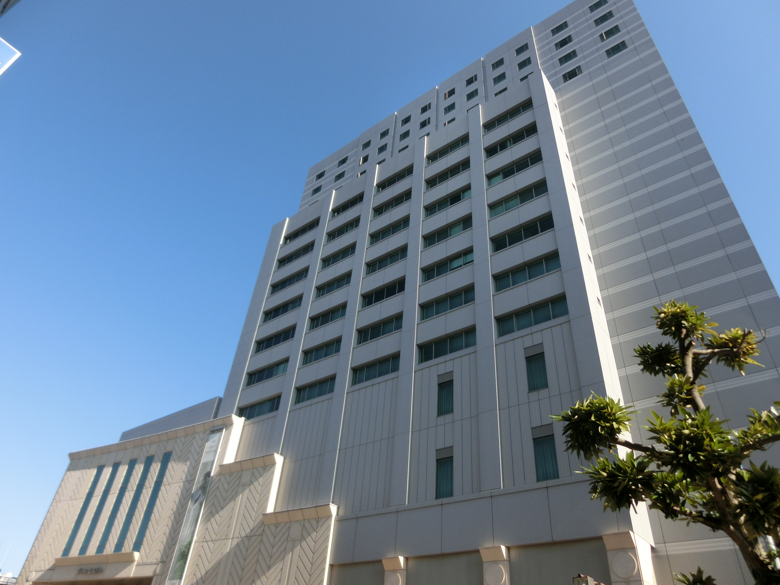 The Crest Hotel Kashiwa